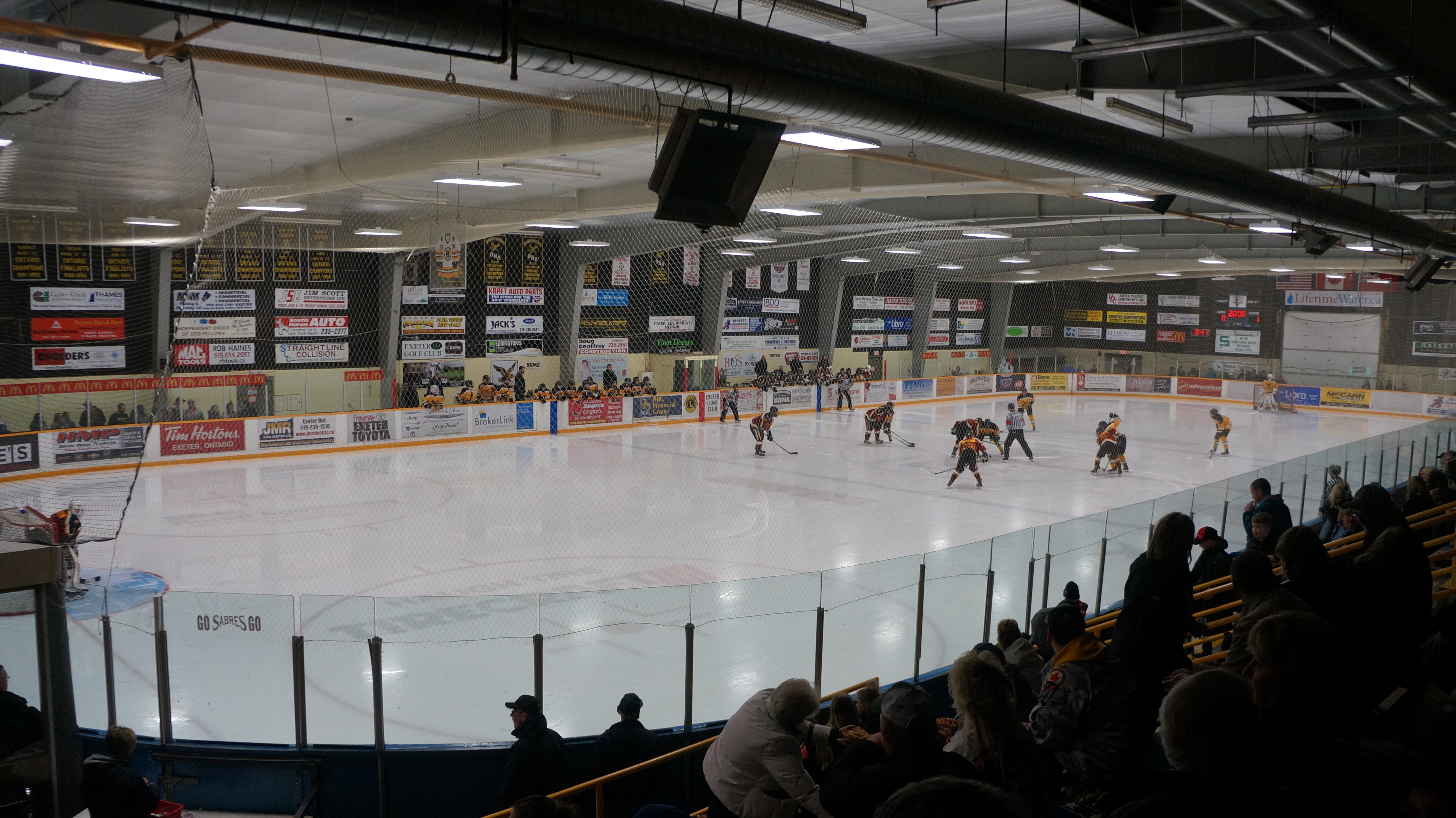 The Exeter Hawks hosting the Grimsby Peach Kings at the South Huron Recreation Centre in Exeter, Ontario on April 13, 2019.